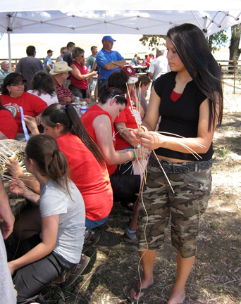 Cherokee Nation basket-making workshop